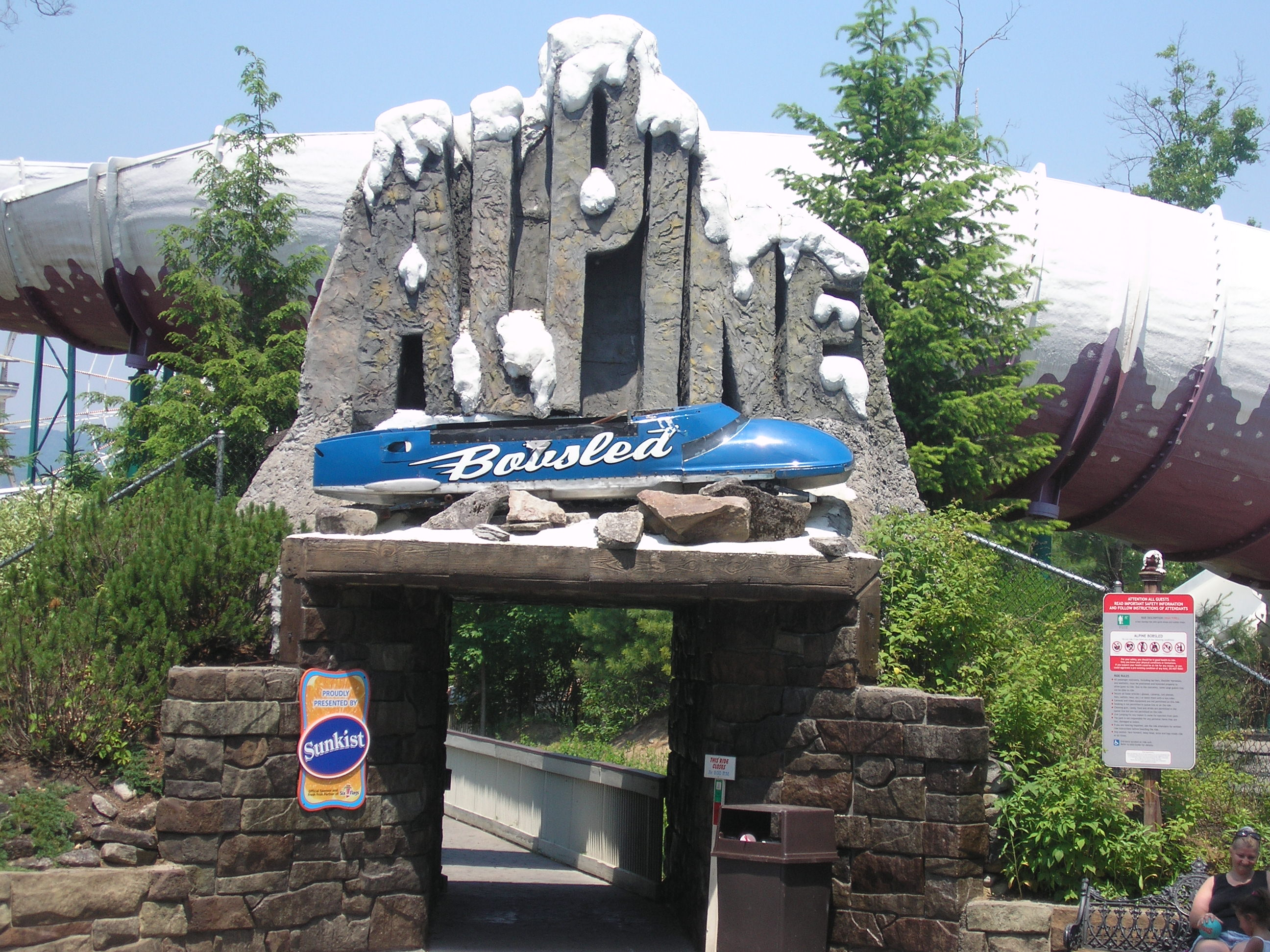 Picture taken by myself on 061806